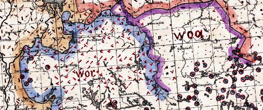 Isogloss wor -woa (